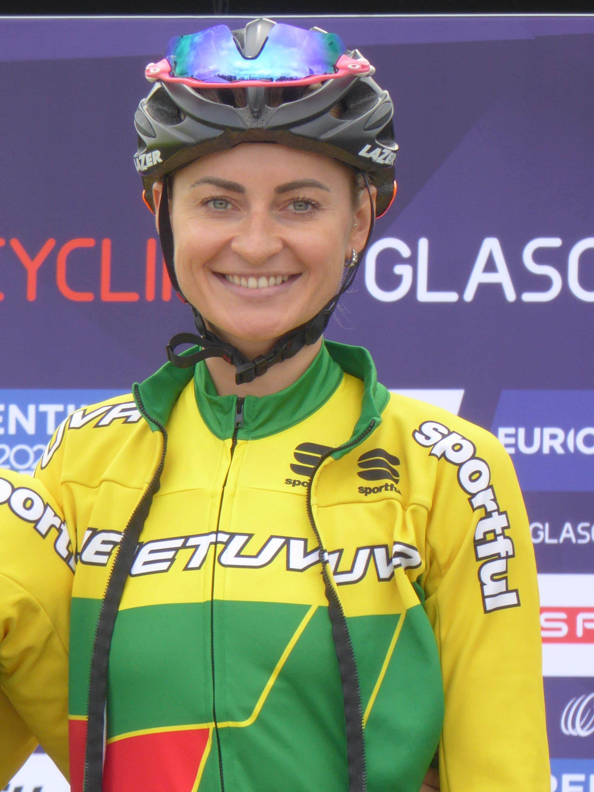 Daiva Ragažinskienė (Lithuania), prior to the women's road race at the 2018 UEC European Road Cycling Championships in Glasgow.